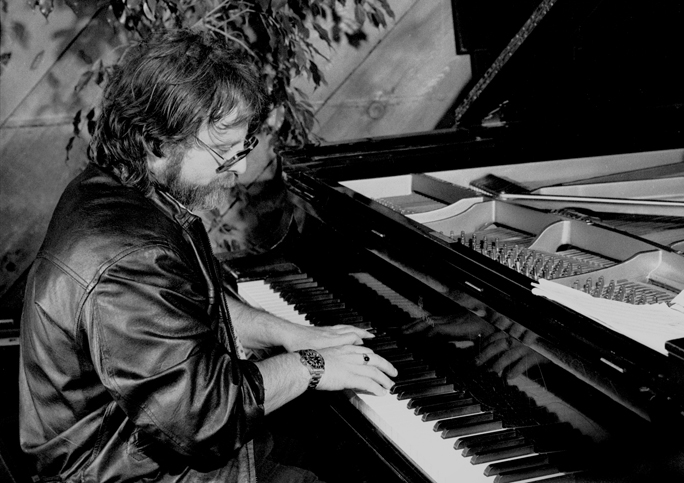 Richie Beirach performing at Bach Dancing & Dynamite Society, Half Moon Bay CA in the 1980s. Photo by Brian McMillen /